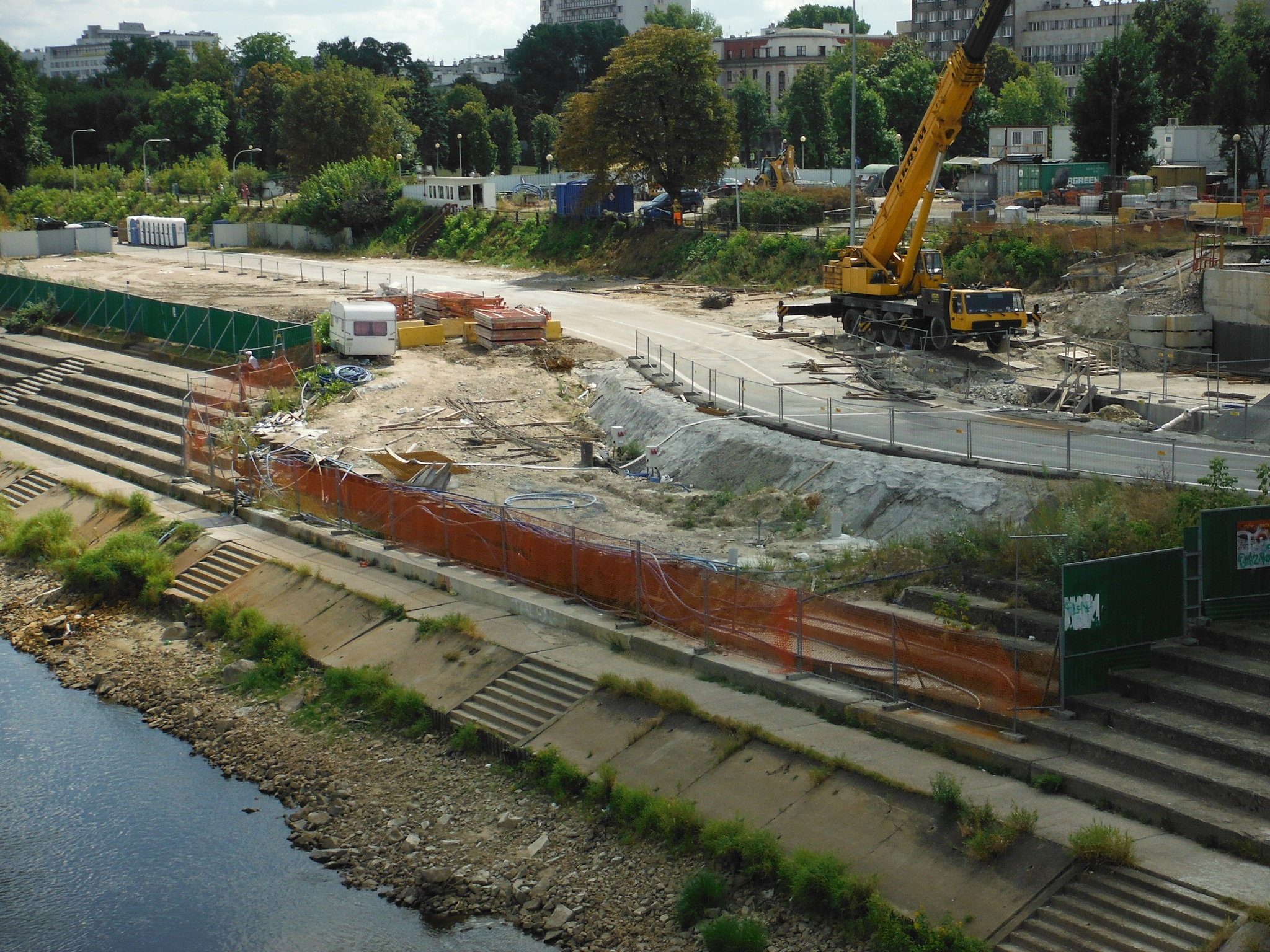 Centrum Nauki Kopernik metro station (under construction) in Warsaw (15th of August 2013).